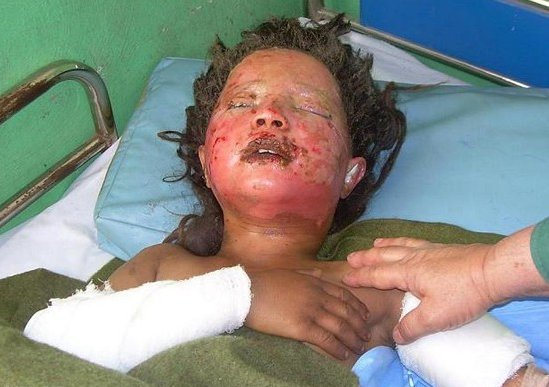 Over 147 civilians, many of them women and children, were massacred when American warplanes bombed villages of Gerani and Gangabad in Bala Baluk district of Farah Province in Western Afghanistan on May 4, 2009. A victim of the Granai airstrike is lying in a hospital in Fararh city.